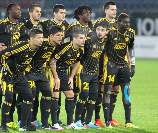 FC Sheriff